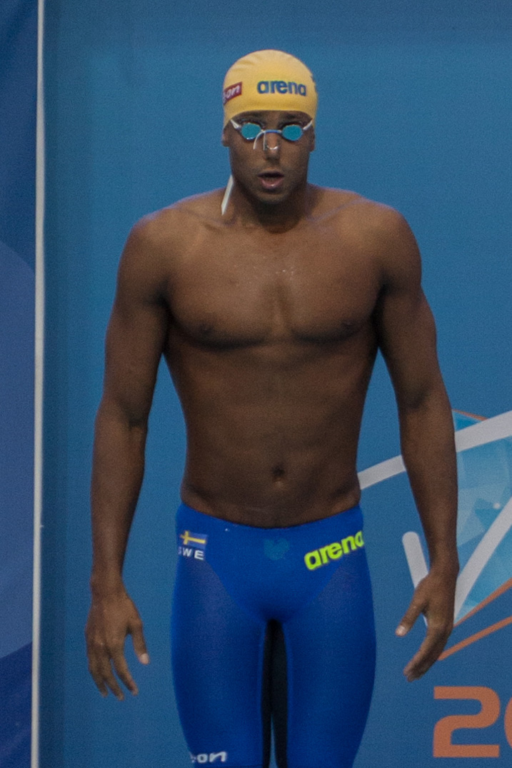 Swimmer Simon Sjödin at the 2015 European Short Course Swimming Championships in Netanya